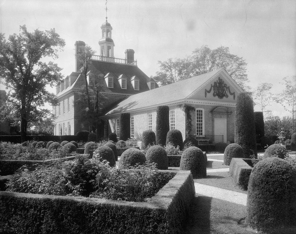 View of the gardens of the Governor's Palace, Williamsburg, Virginia, by the American photographer and photojournalist Frances Benjamin Johnston, circa 1930-1939. This black and white photograph forms part of the Johnston archives at the Library of Congress, to which the photographer bequeathed her inventory, hence there are no restrictions on publication, as per the Library of Congress website. Image courtesy of the Prints and Photographs Division, Library of Congress, Washington, D.C.